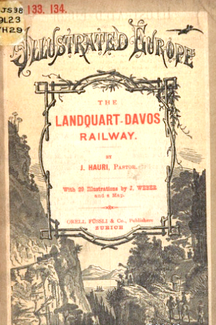 Cover of: Landquart-Davos Railwa (Illustrated Europe series)